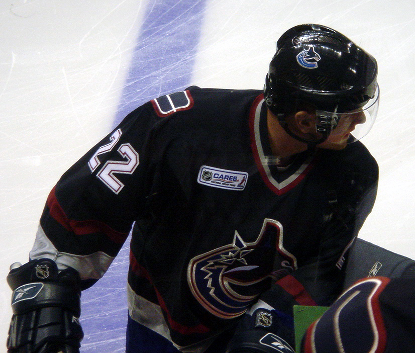 Vancouver Canuck forward Daniel Sedin